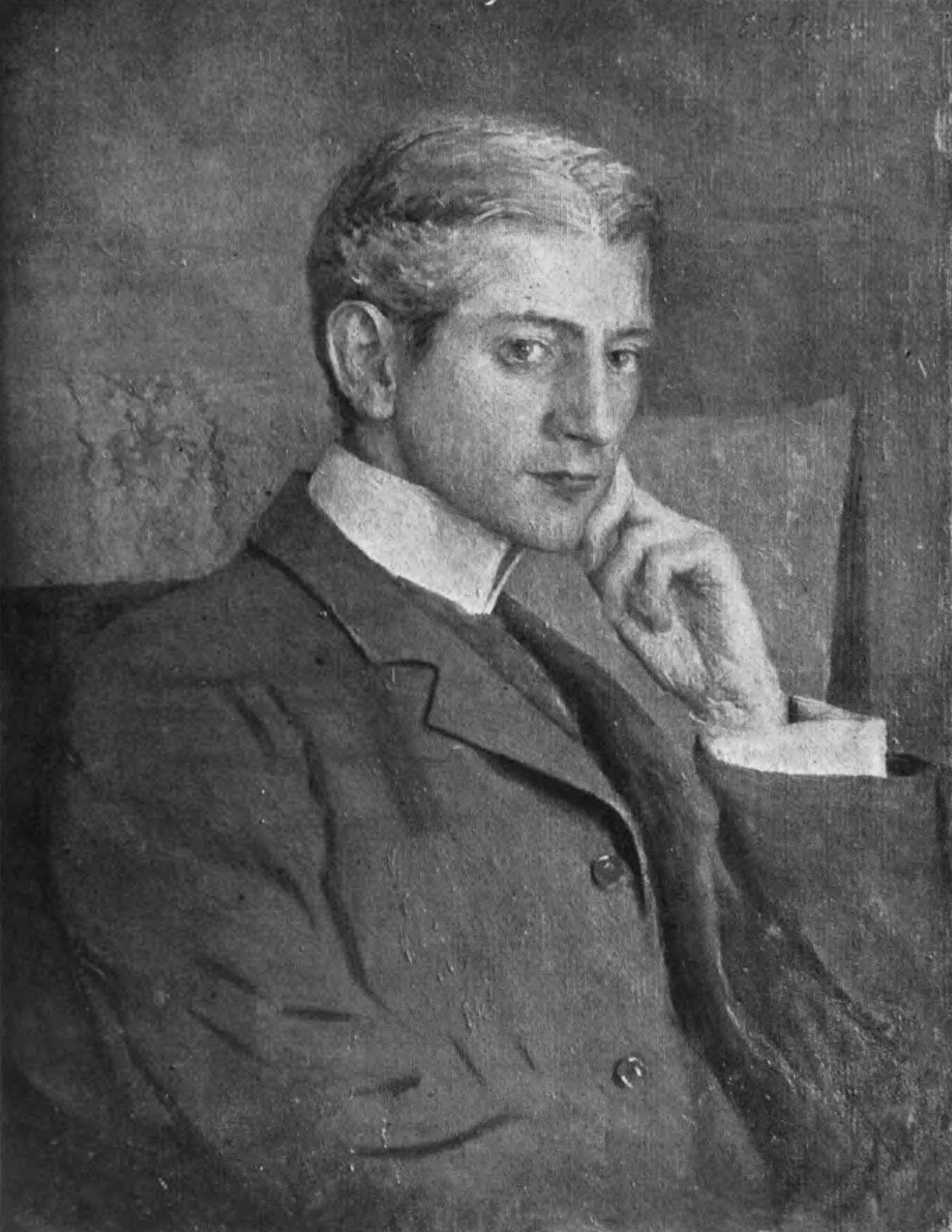 Portait of Frank Norris, by Ernest Clifford Peixotto.